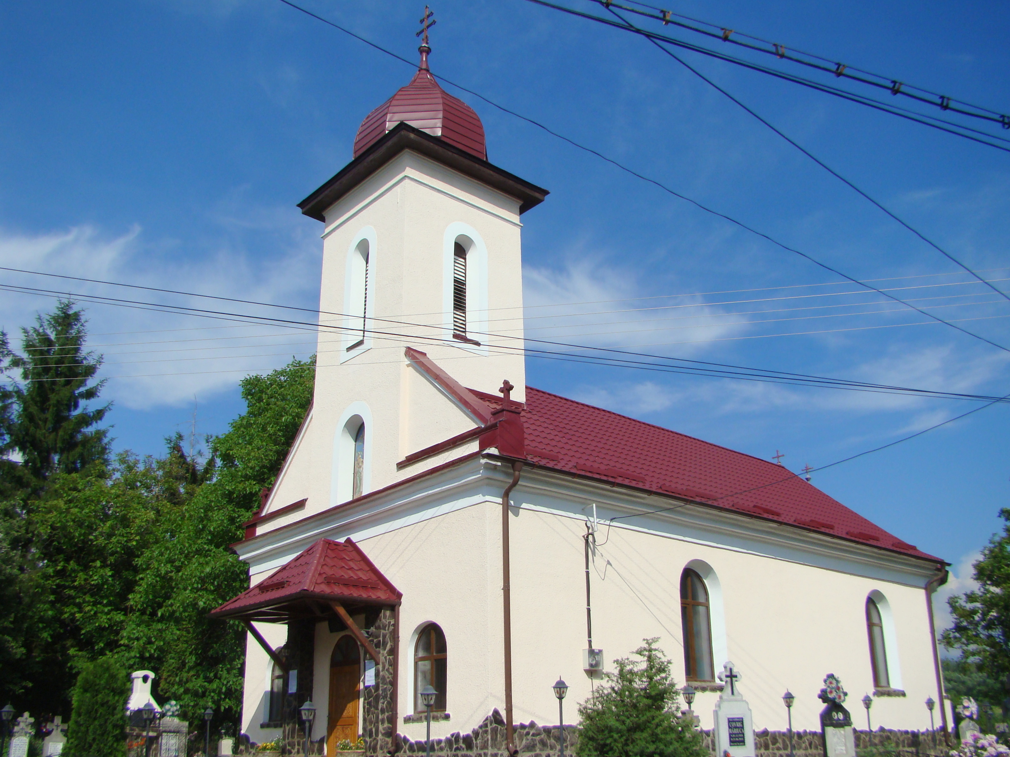 Orthodox church of The Ascension of our Lord in Râpa de Jos, Mureş county, Romania